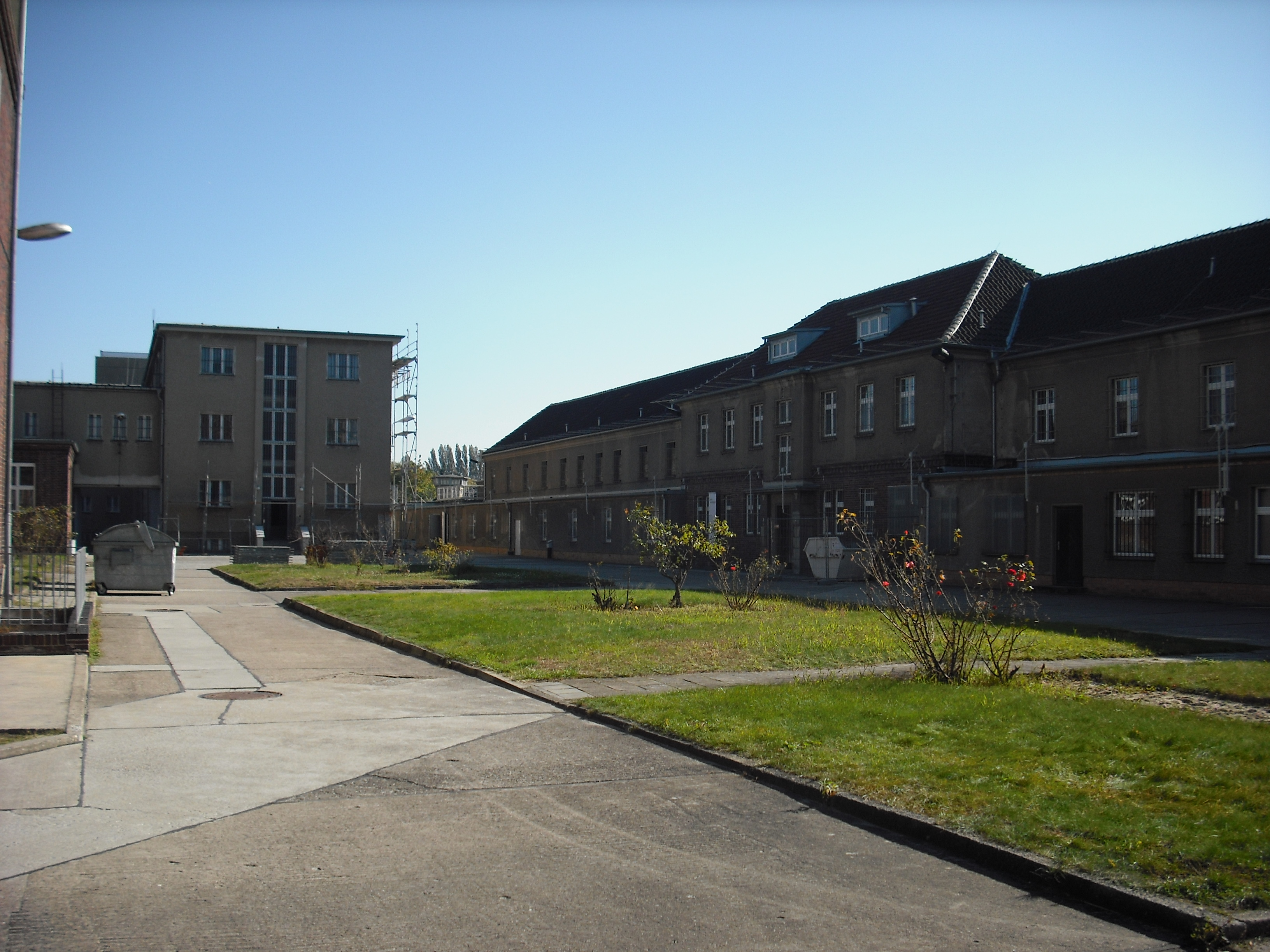 Berlin-Hohenschönhausen Memorial - Hospital